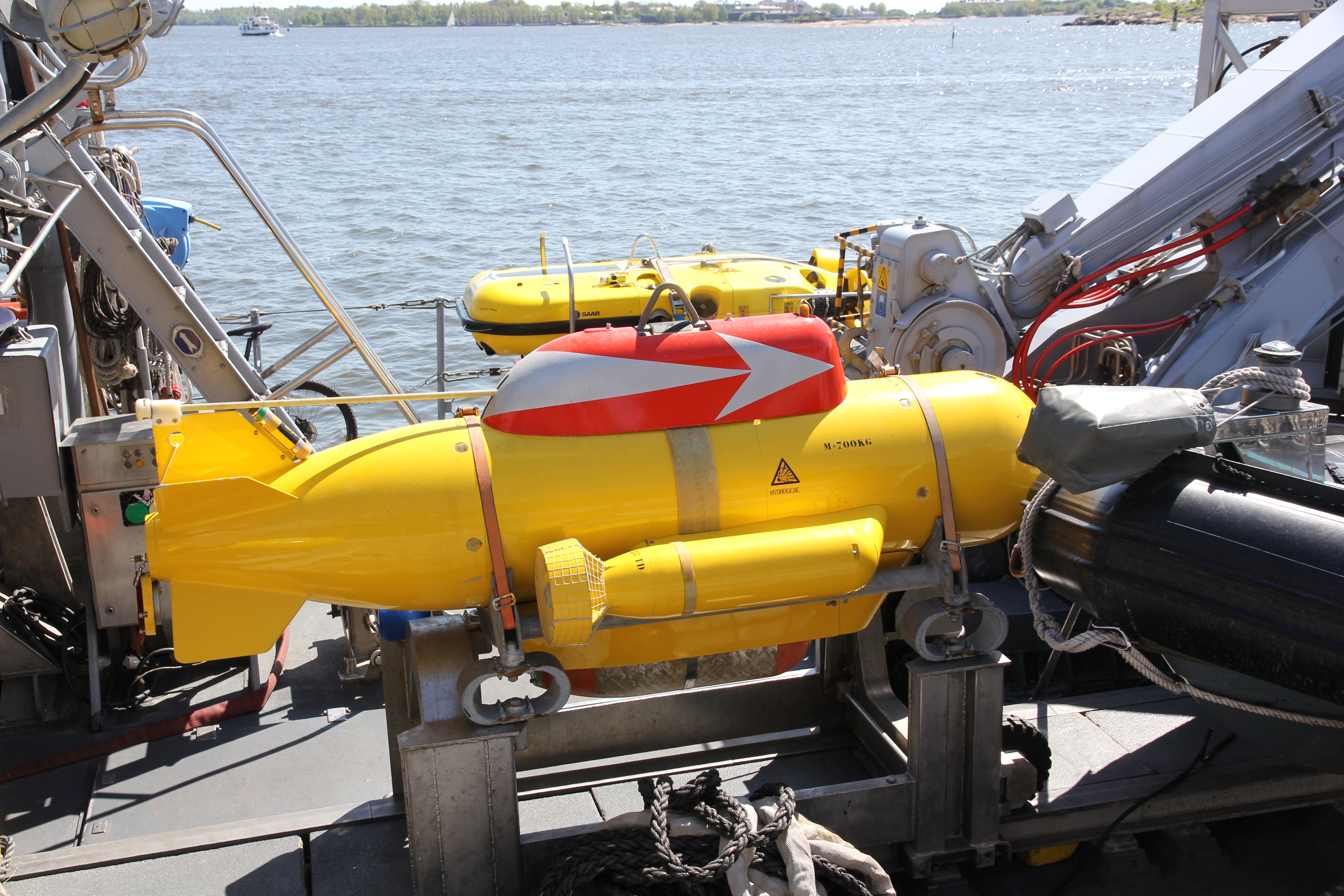 PAP-104 and Double Eagle remote operated vehicles of the French minehunter Cassiopée (M642).